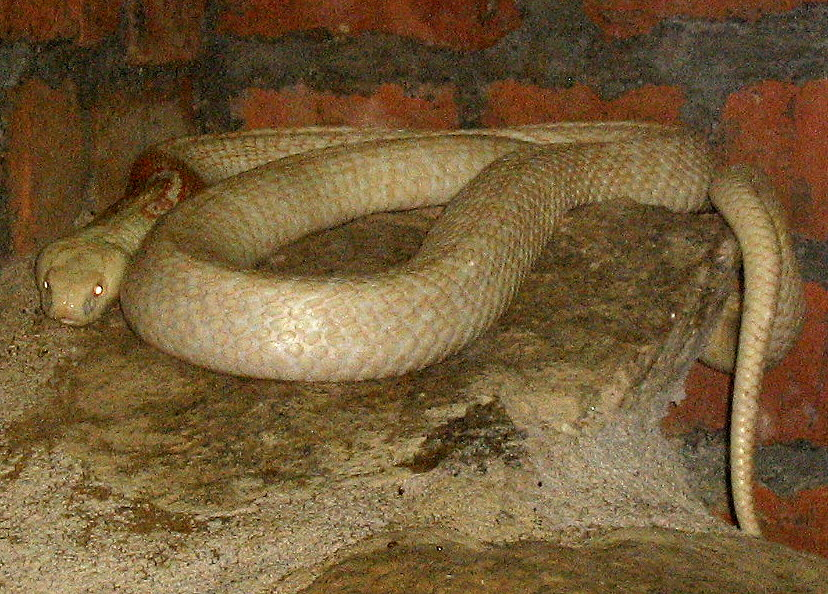 Albino cobra (Naja naja); note that it is not axanthic, so it retains some yellow and red pigment.